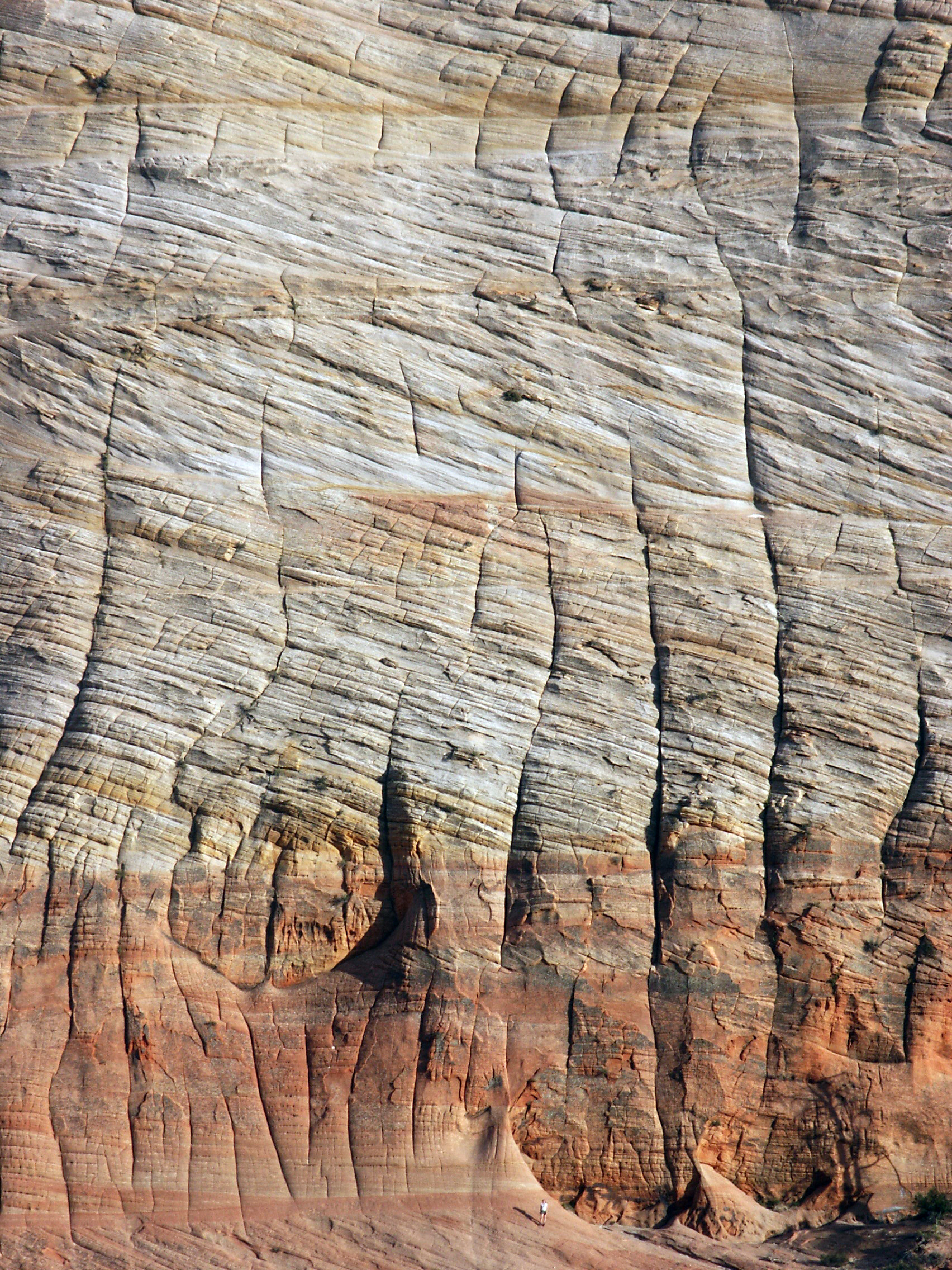 Large tabular cross-beds in the Navajo Sandstone (Jurassic). Exposure is in the Checkerboard Mesa area within Zion National Park. Person for scale near the lower margin of the image.